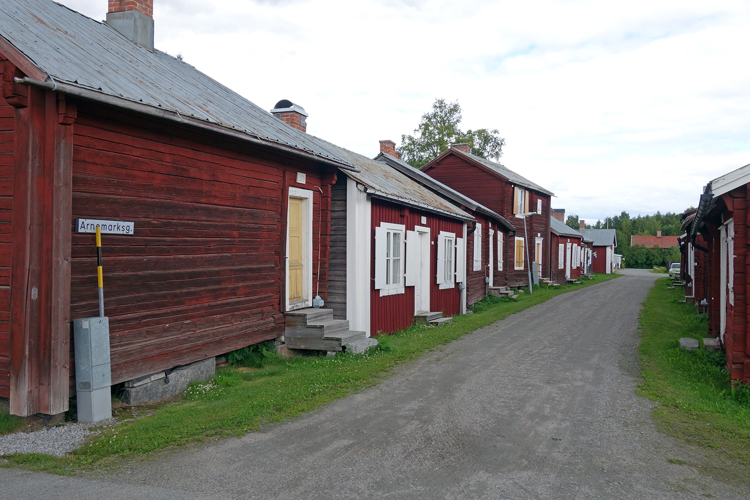 Arnemarksgatan, a street in the church town by Öjebyn's church in Piteå, northern Sweden.